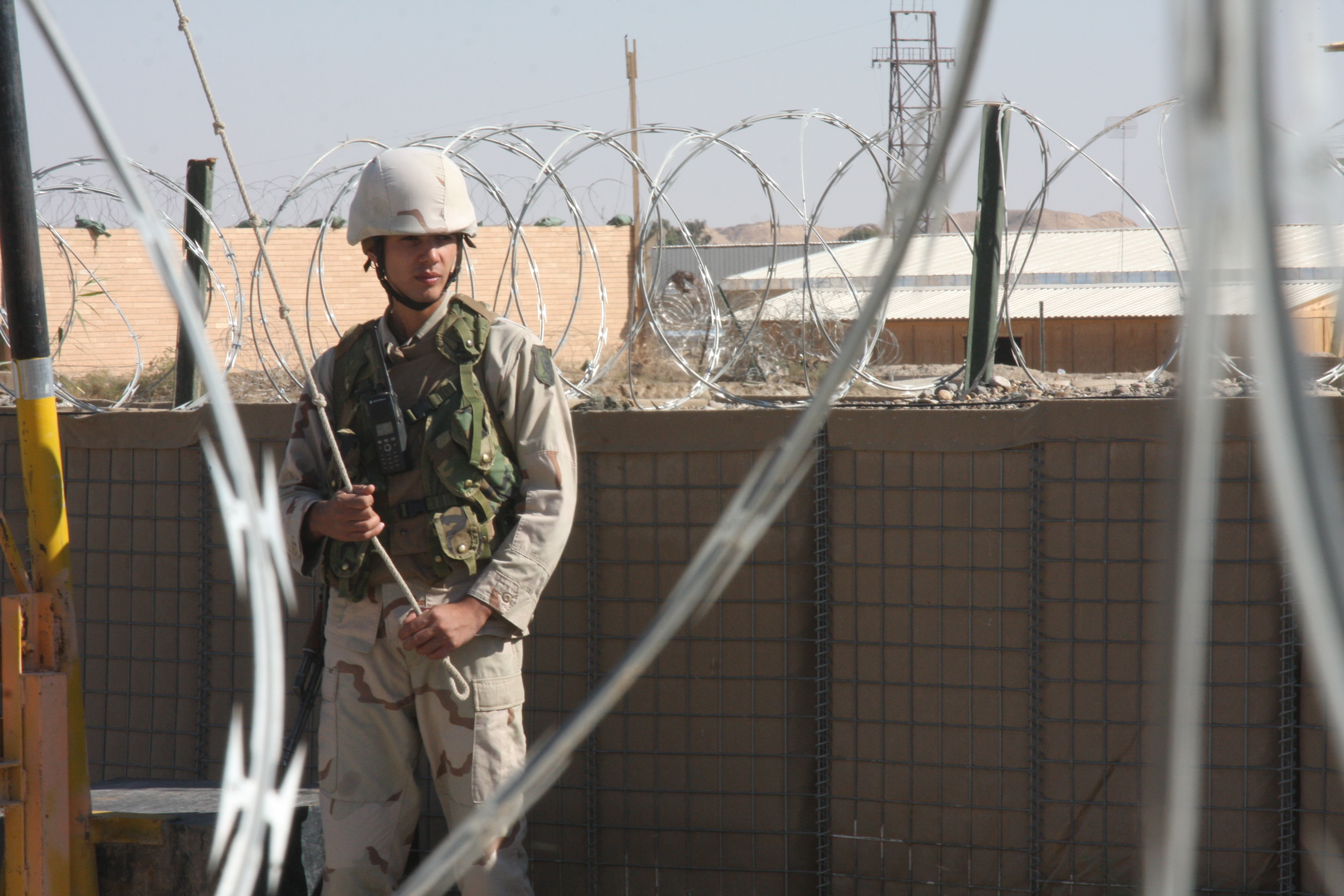 An Azerbaijani soldier closes the gate at entry control point 1, Haditha Dam, Iraq, Nov. 17, 2008. Azerbaijani troops used to guard the Haditha Dam in support of Operation Iraqi Freedom. VIRIN: 081117-M-9943H-026